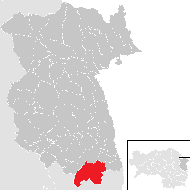 District Hartberg, Styria